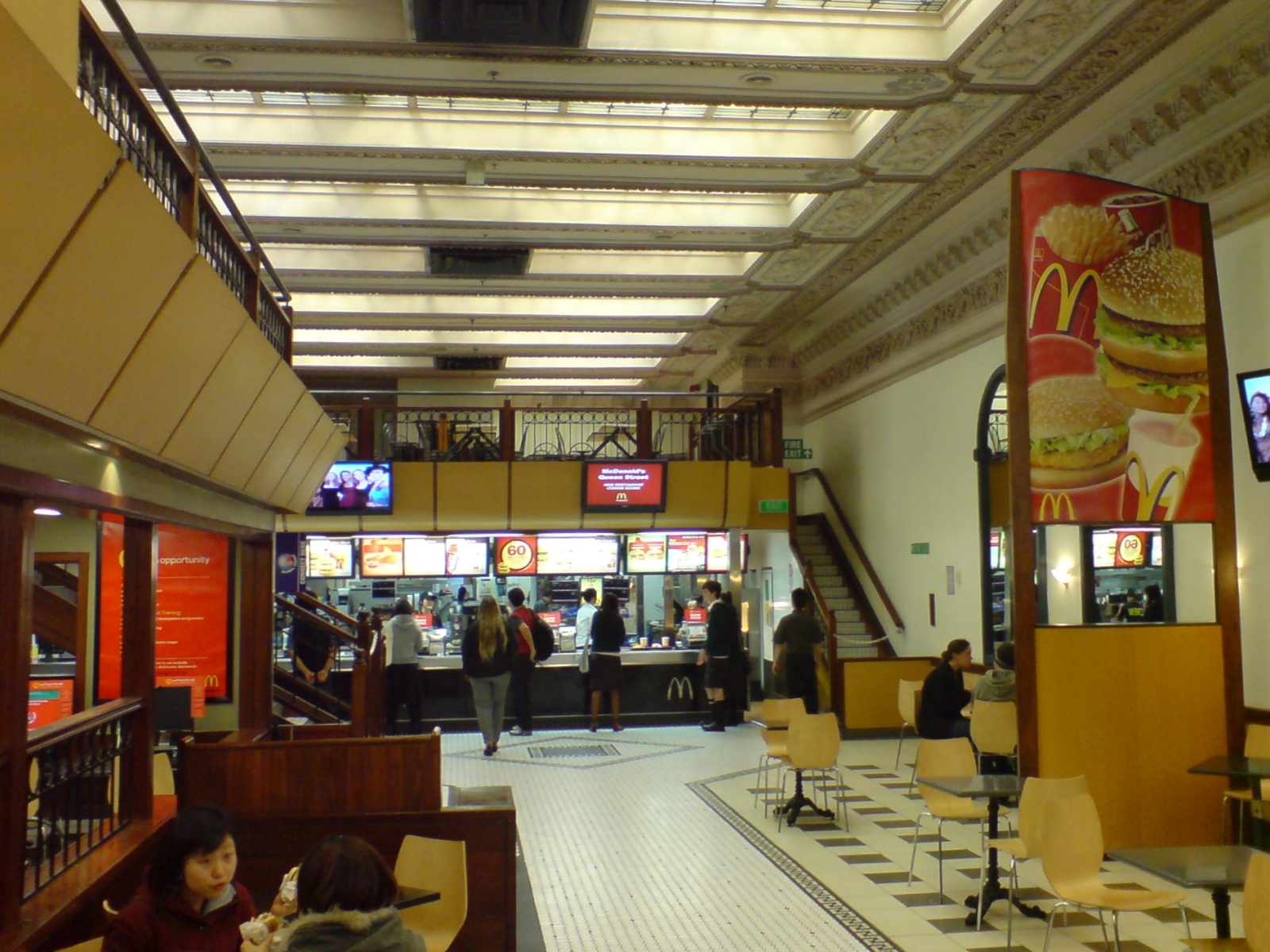 The interior of the Auckland Savings Bank Building in the Auckland CBD, New Zealand. Now containing a McDonalds, though apparently, some bank elements like the safe are still in use (as a stockroom in said case). New Zealand Historic Places Trust Register number: 4473